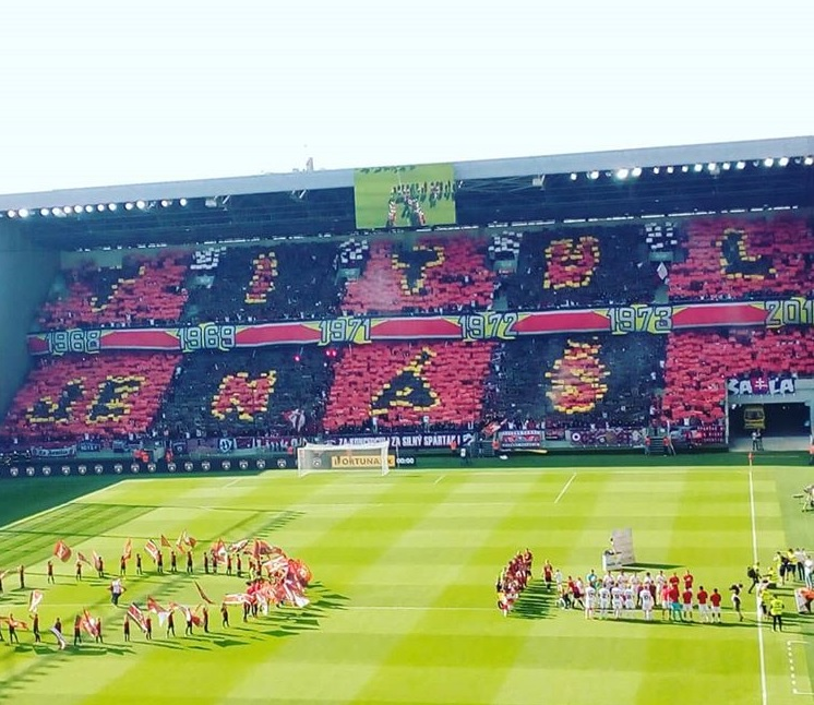 fans in City Arena, match agains Trencin